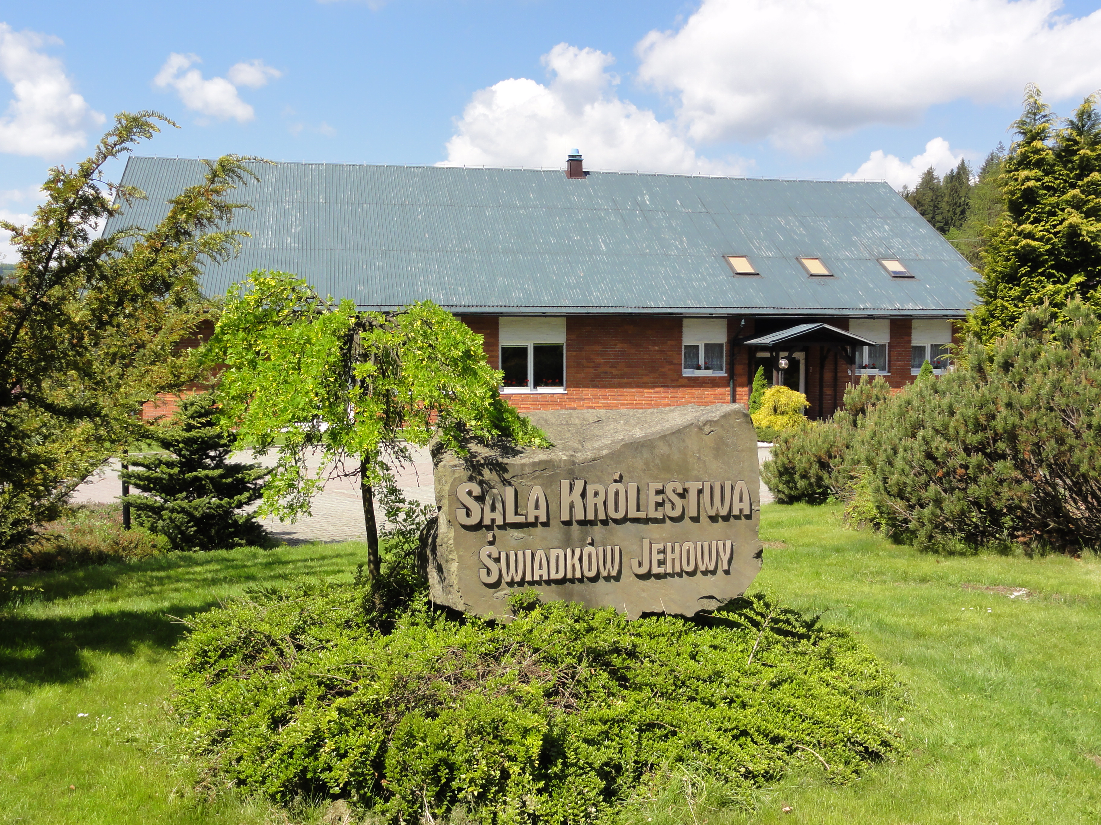 Kingdom Hall in Wisła-Malinka